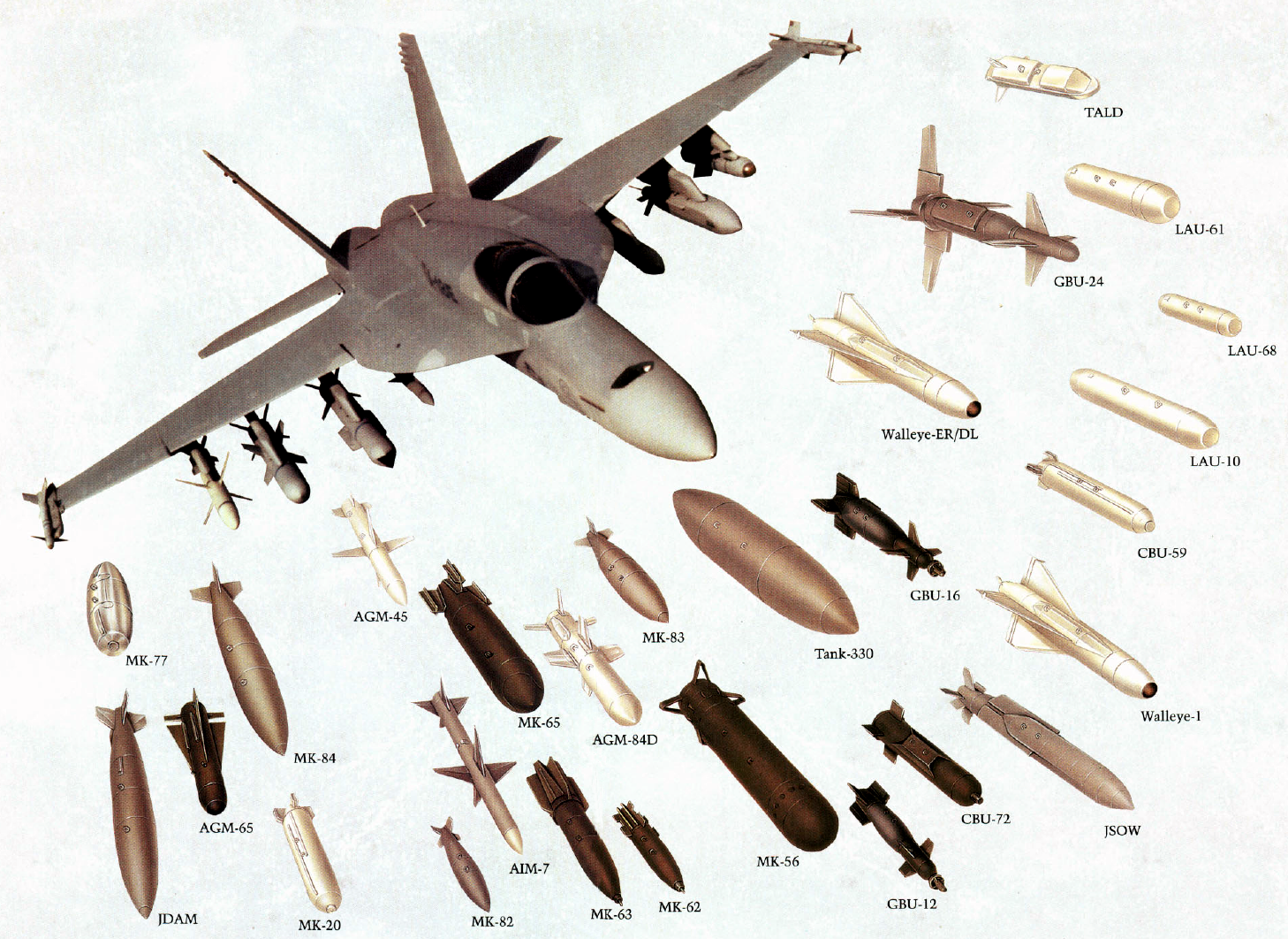 Drawing of a U.S. Navy Boeing F/A-18E Super Hornet with potential armaments.